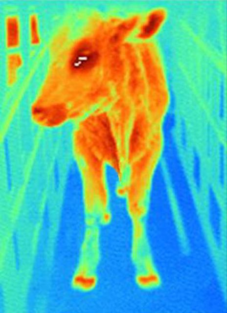 electronic thermography (thermal recording) image of a cow infected with foot-and-mouth-disease virus. Note that the hooves are red. Red color in the hooves indicates heat.